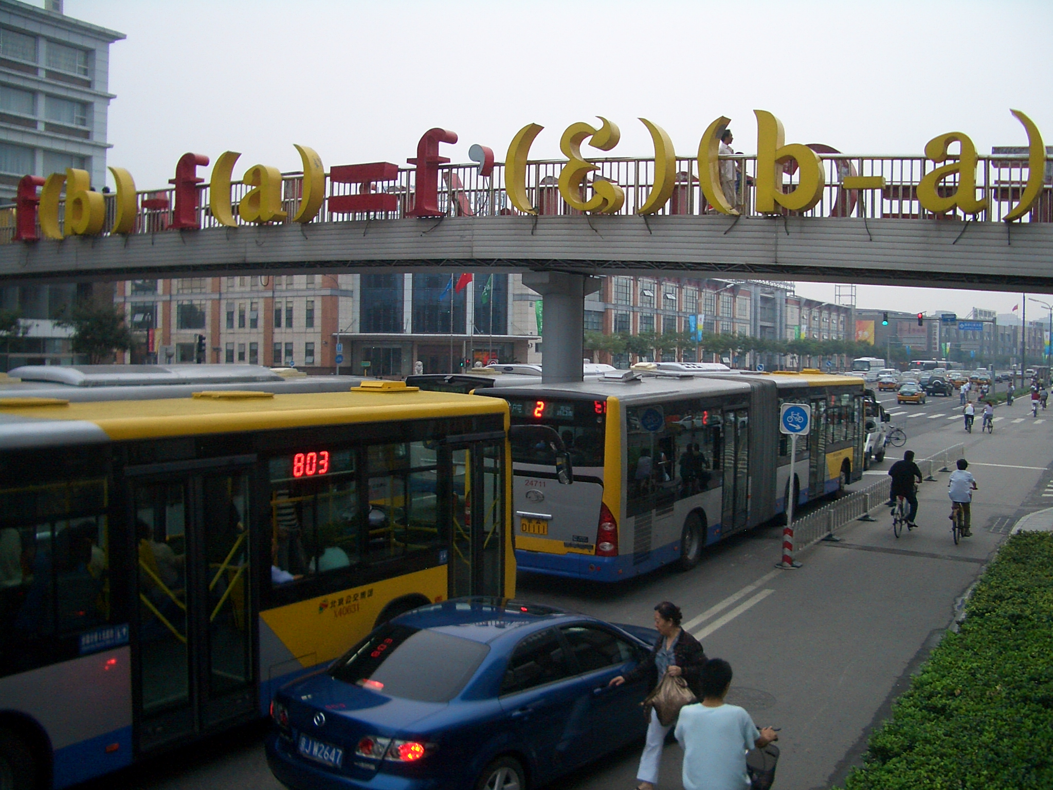 The Government of Beijing celebrates the Mean Value Theorem. The picture is taken a few blocks south of Tiananmen Square (between Qianmen and the Temple of the Heaven, in Chongwen District of the city.